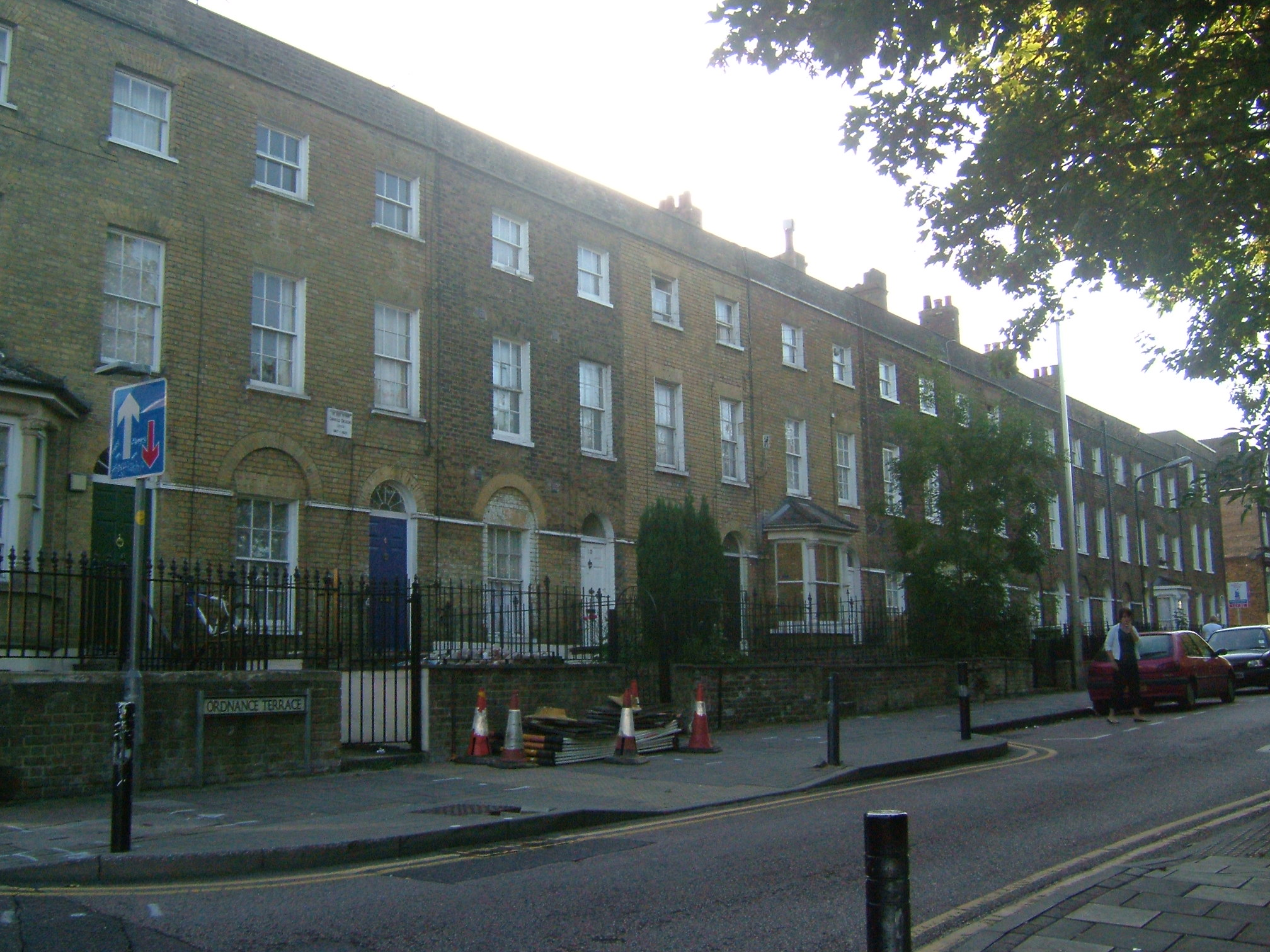 Chatham is a town in ,North Kent ,England. Ordnance Terrace a childhood home of Charles Dickens.